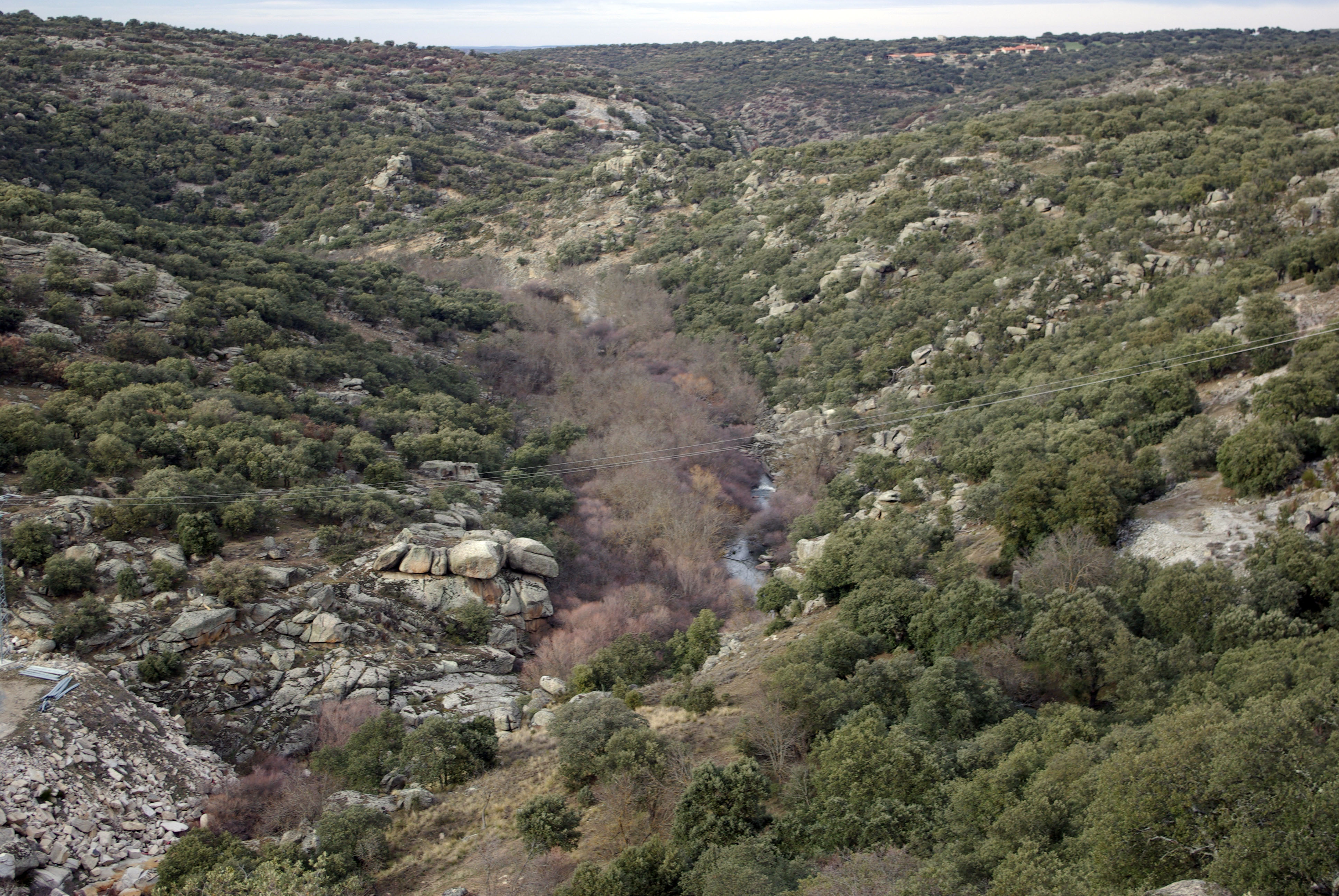 River Adaja near Mingorría (Ávila, Spain)